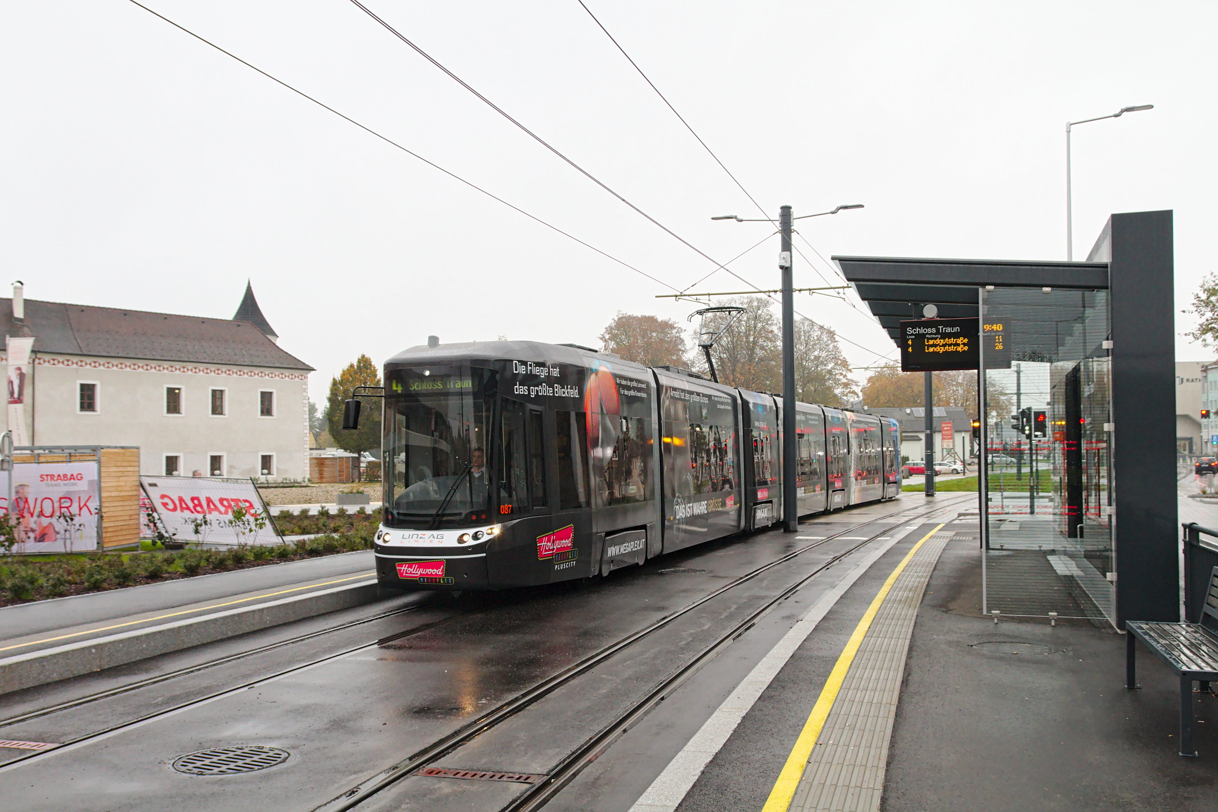 Line 4 tram at Schloss Traun stop.